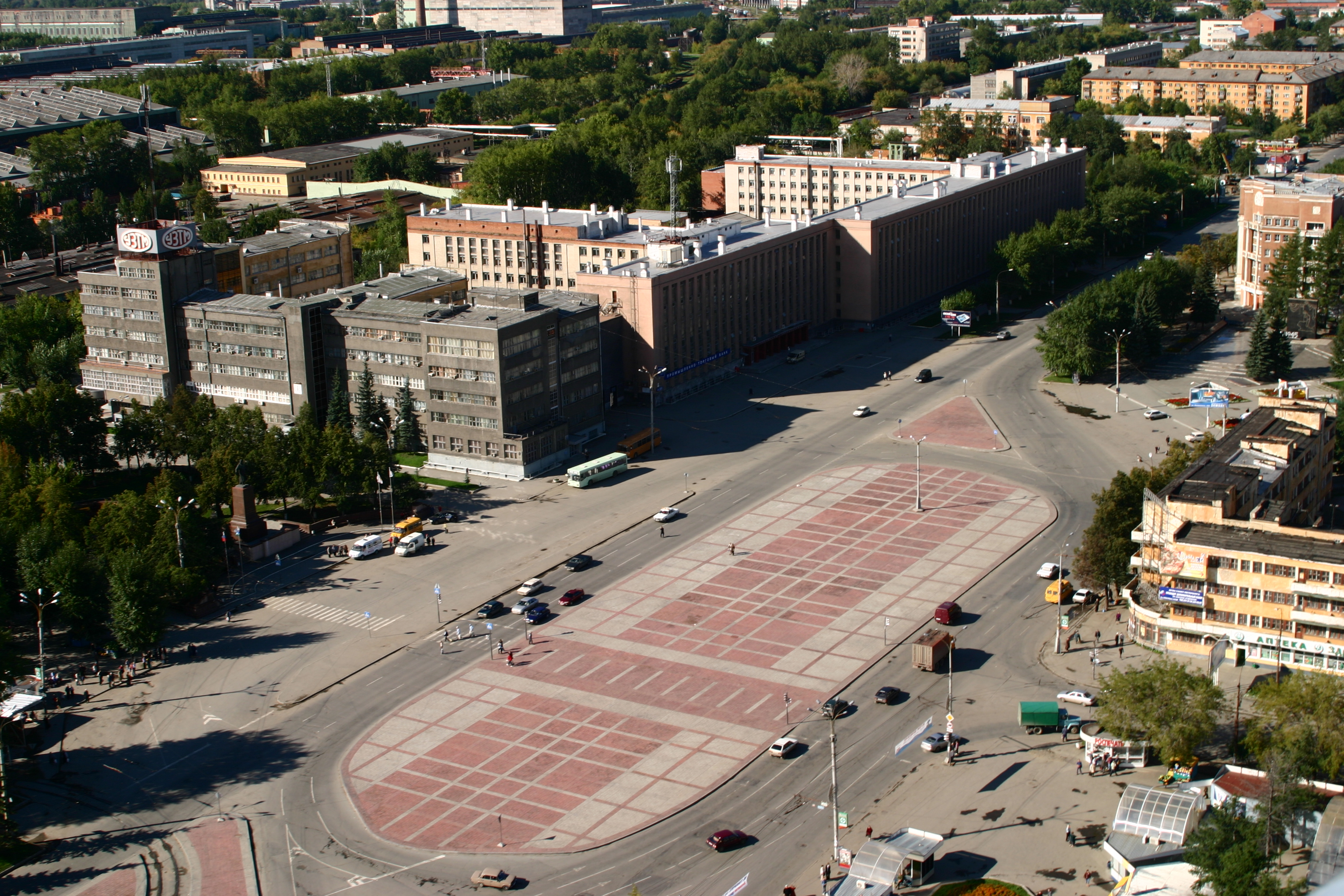 Square of 1-st Pyateletka